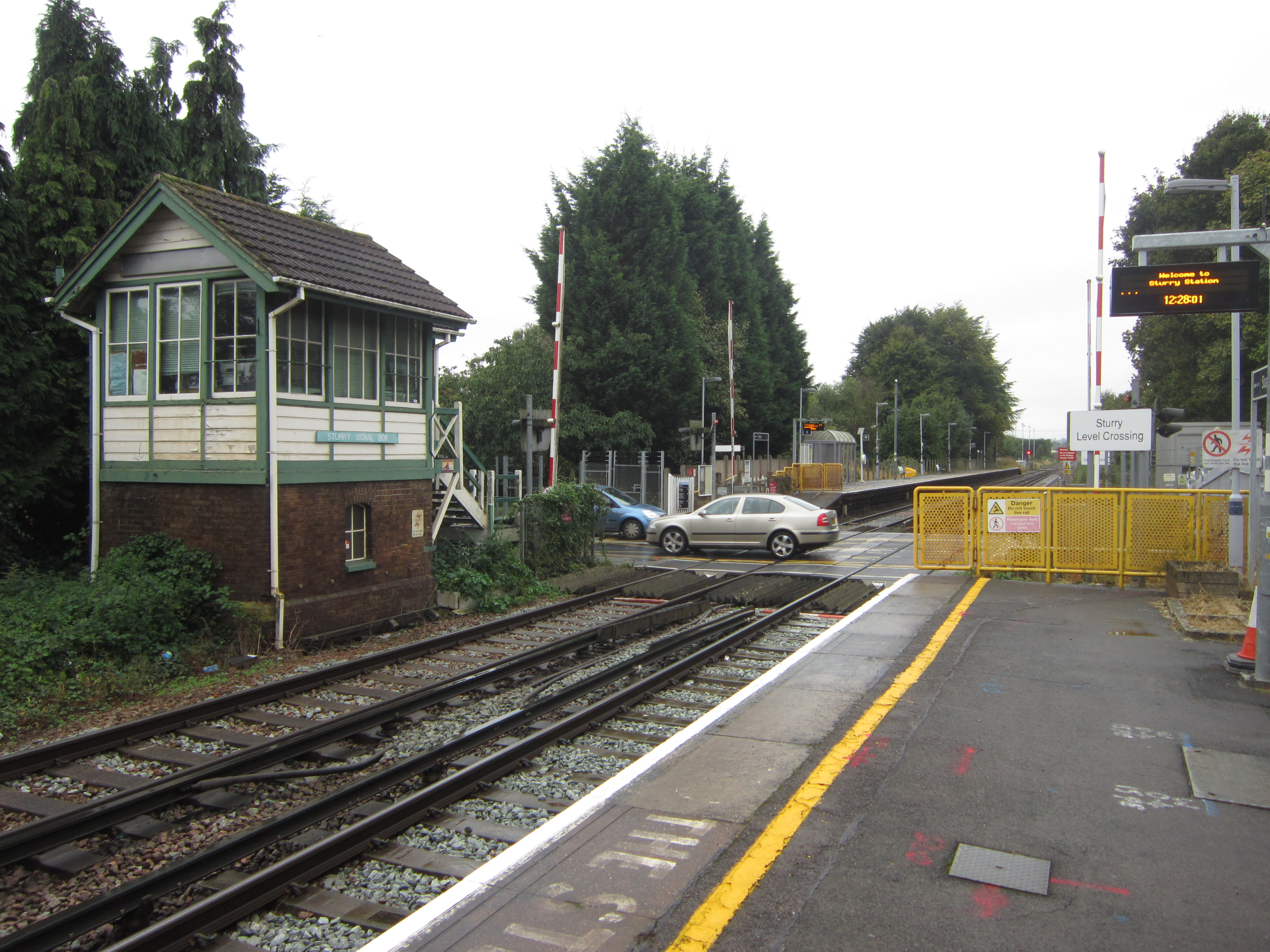 Sturry railway station, signal box, and level crossing. Ramsgate-bound platform is in the background.